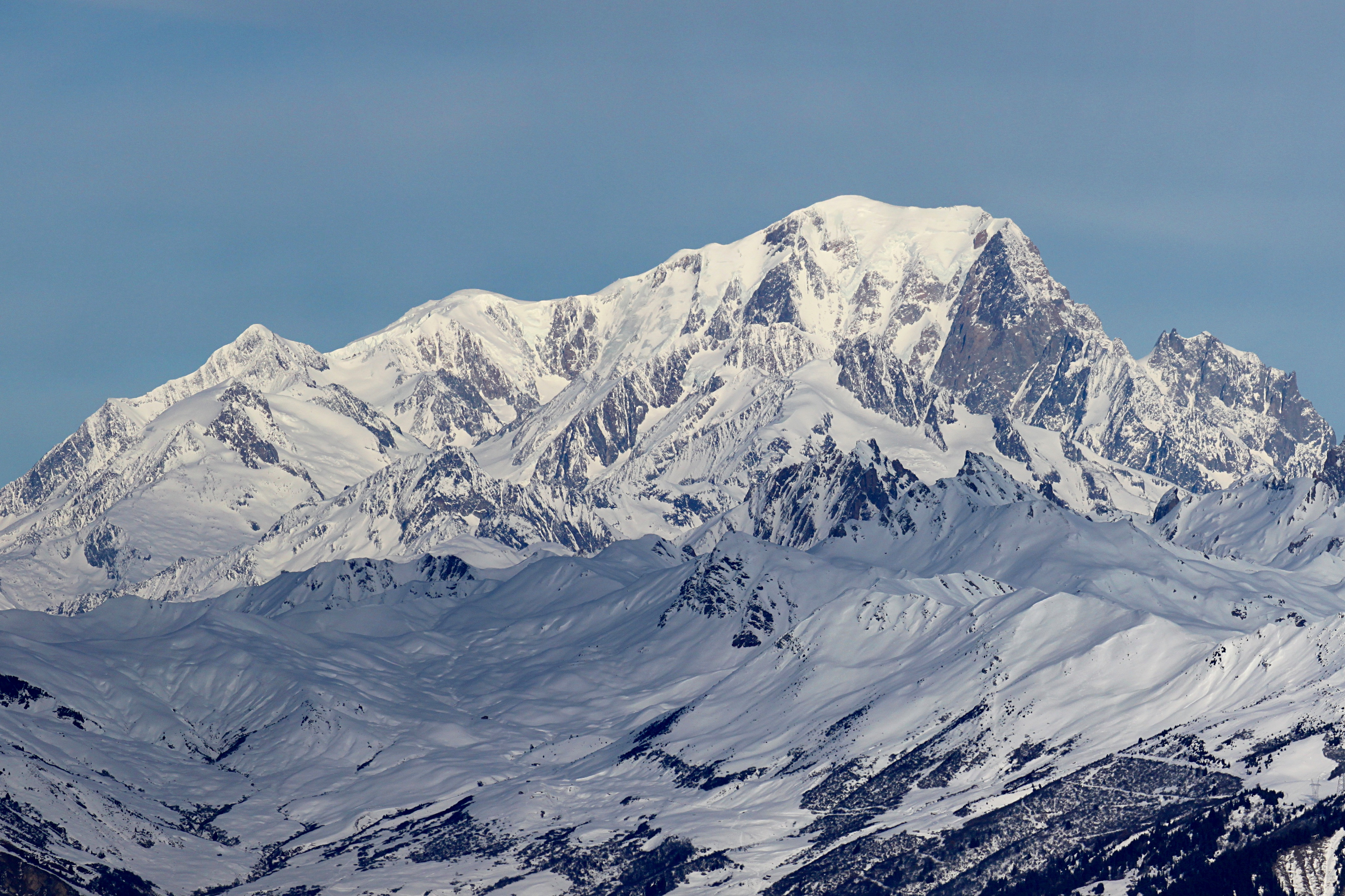 South side of the Mont Blanc, seen from Valmorel